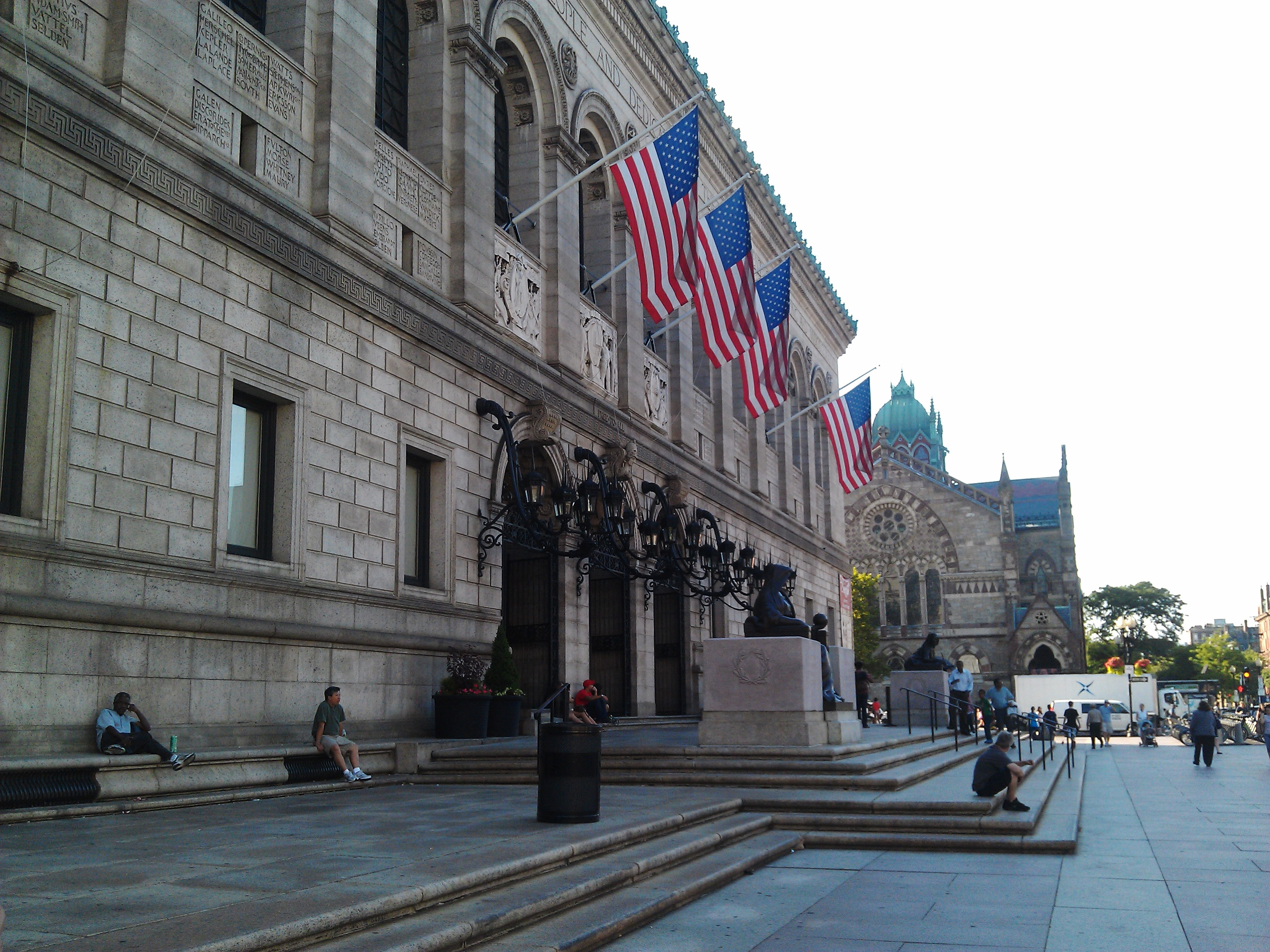 Boston Public Library